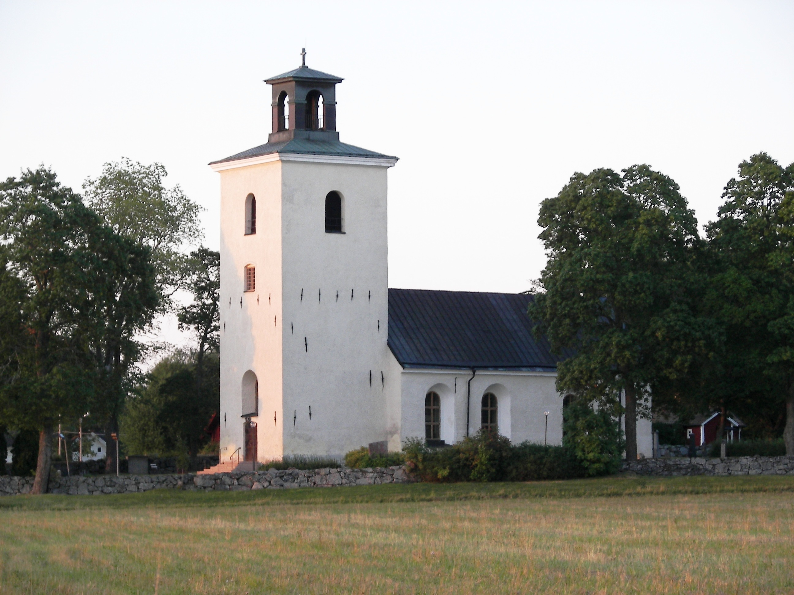 Tillberga church, Sweden